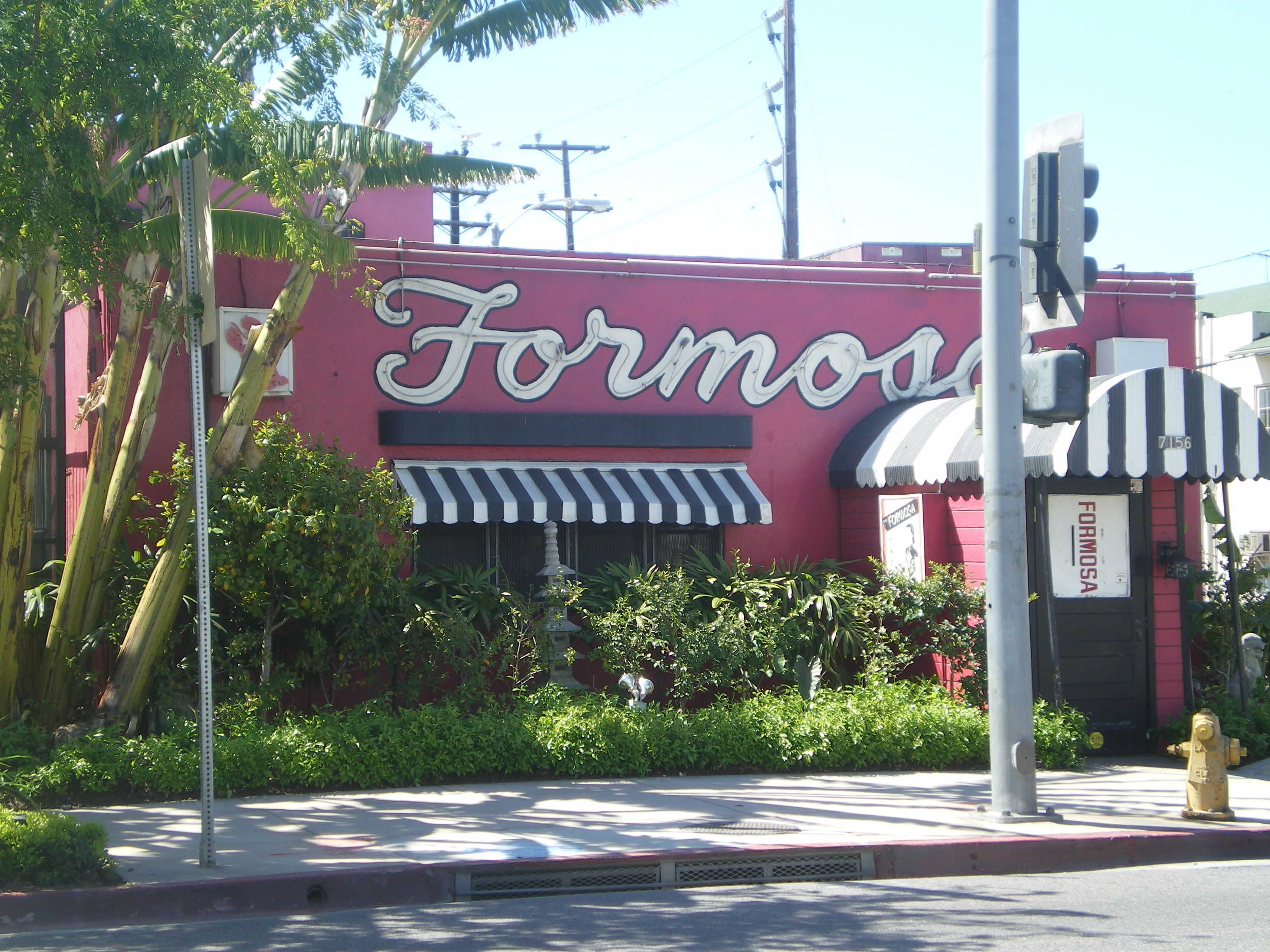 Formosa Cafe, Santa Monica Boulevard, Los Angeles, California Formosa Cafe, Santa Monica Boulevard, Los Angeles, California